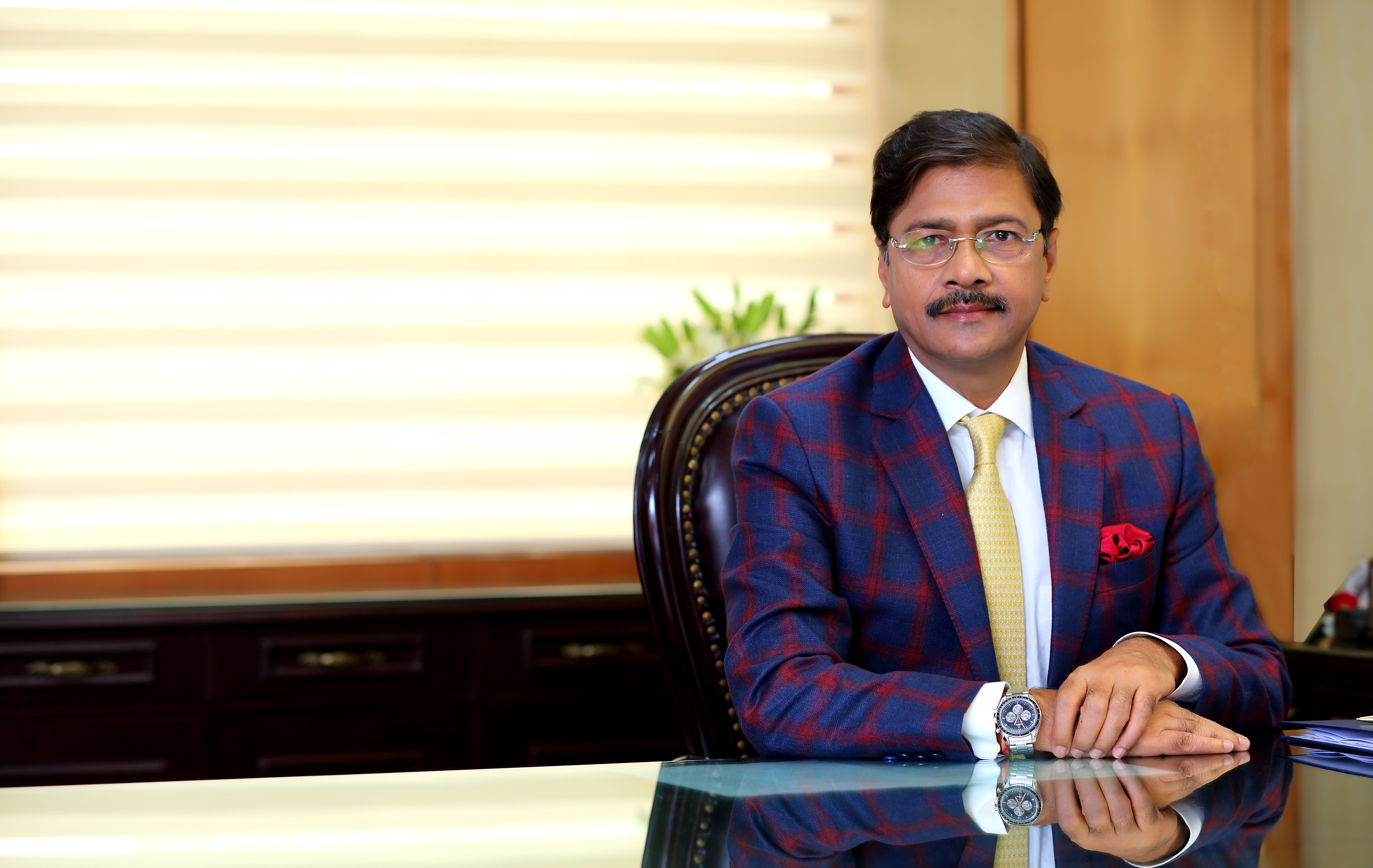 Anoop Kumar Mittal, Chief Managing Director, NBCC